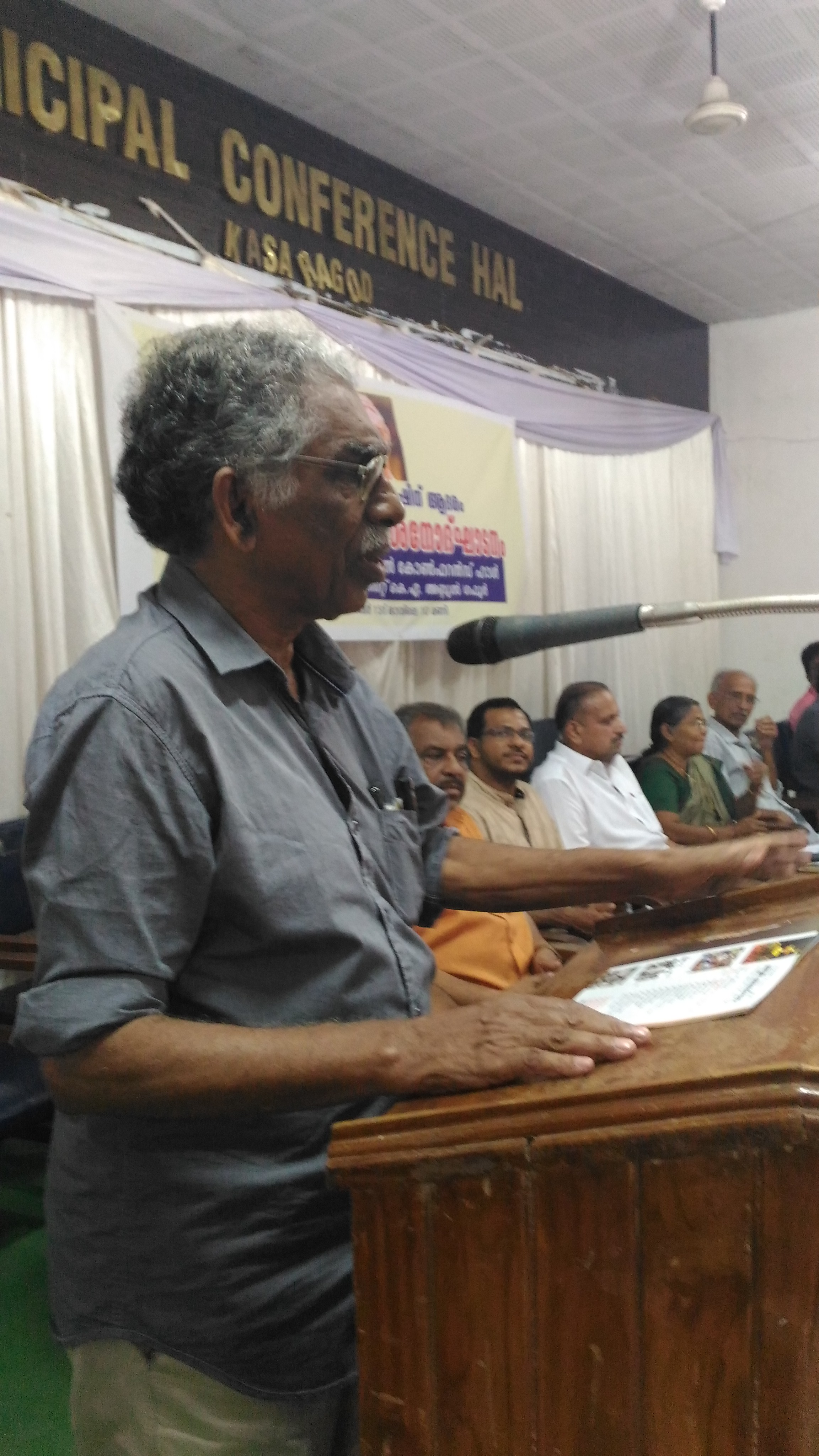 P V Krishnan_cartoonist